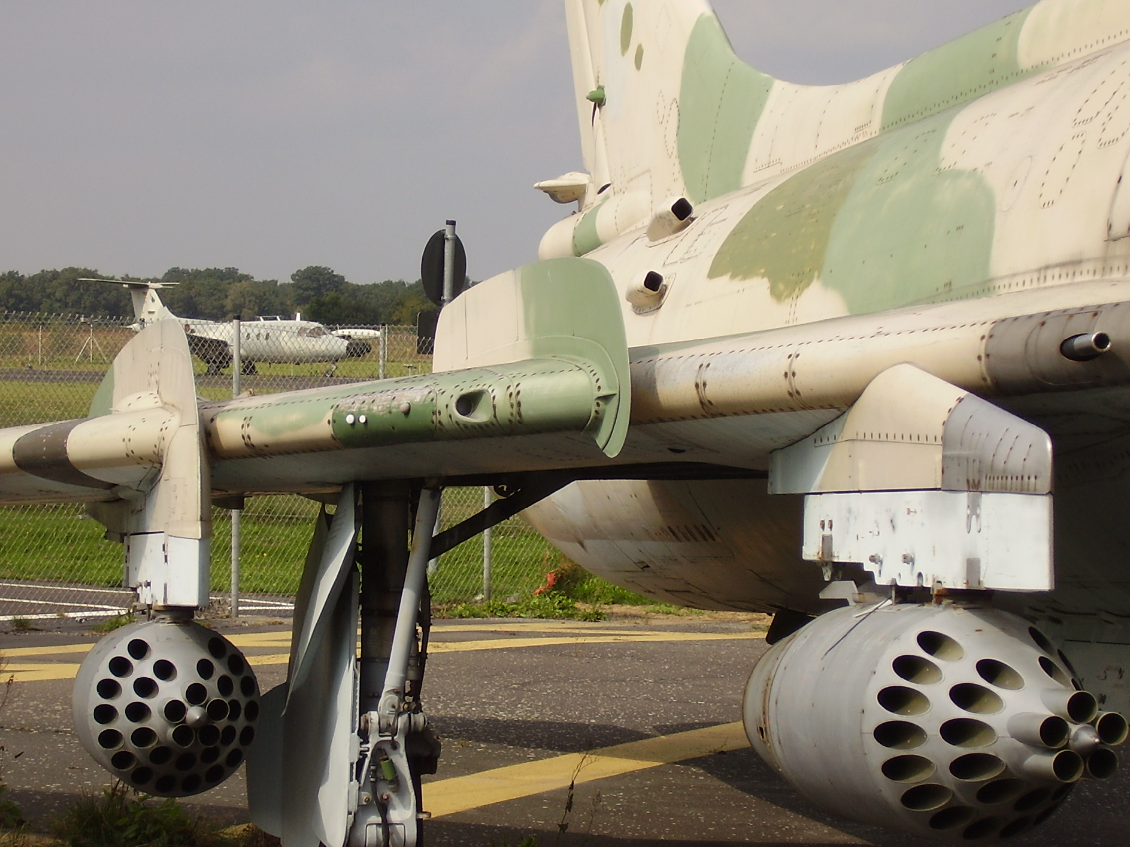 Luftwaffenmuseum der Bundeswehr; In 1985, this Su-20 aircraft was purchased from its original owner, the Egyptian Air Force by Luftwaffe (serial 98+61) in order to test and evaluate the type. Airforce Museum of the Bundeswehr; Berlin-Gatow, Su-20 with UB-32 S-5 rocket launchers